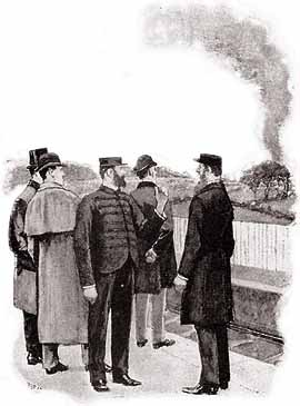 Illustration of the Sherlock Holmes short story The Engineer's Thumb, which appeared in The Strand Magazine in March, 1892. Original caption was "A HOUSE ON FIRE?"